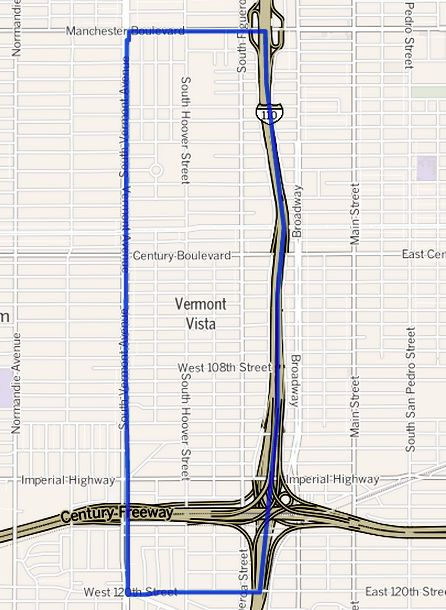 Map of Vermont Vista, as outlined by the Los Angeles Times. Other information Boundary map as drawn by the Los Angeles Times on a CC-by-SA background. Note at bottom right of map on the L.A. Times website noted above says "CC-by-SA" (which gives permission to use the map). There is a link there to which explains the meaning thereof. The base map is credited to The Times spells all this out at